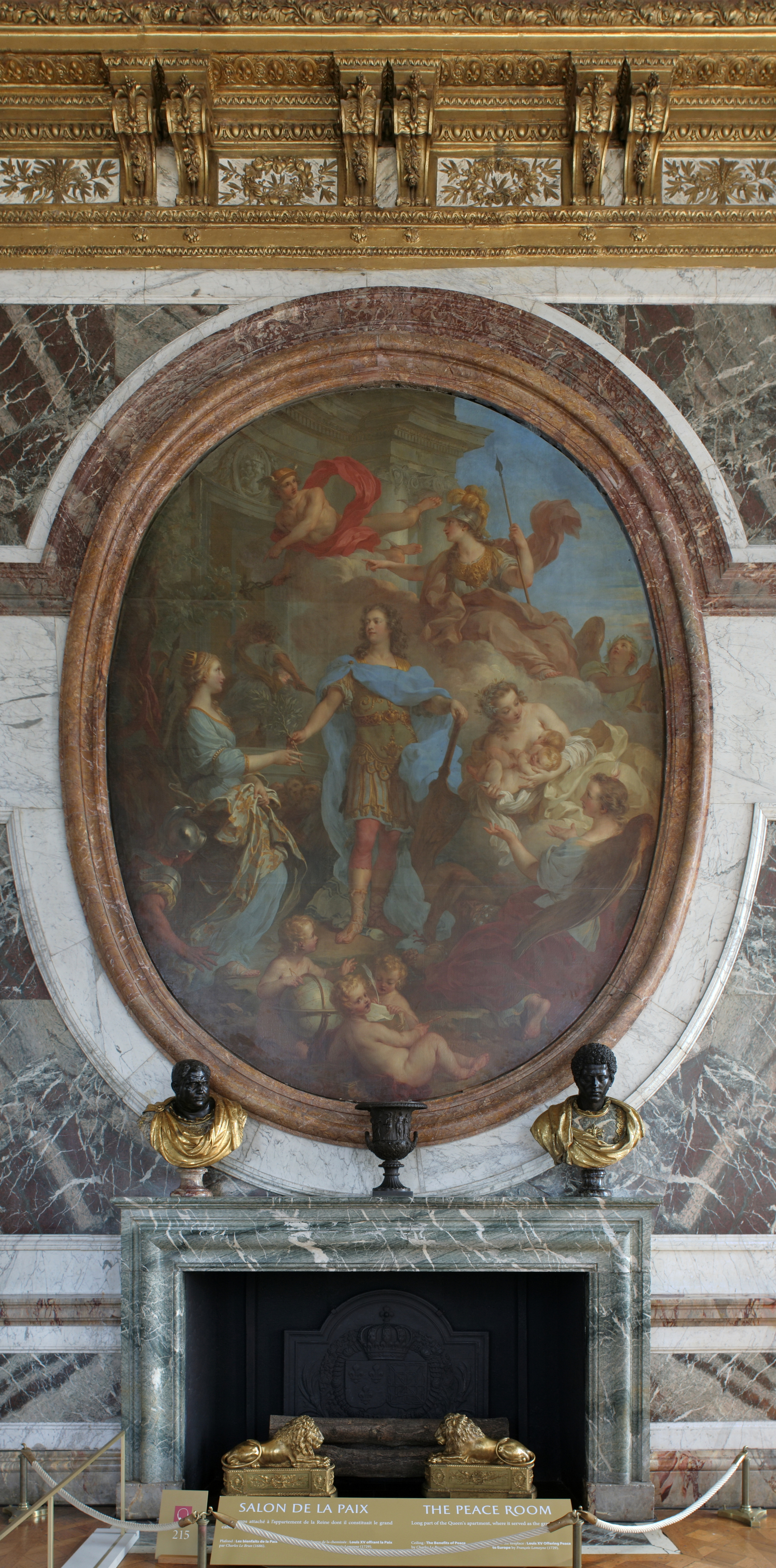 Bust of Elagabalus